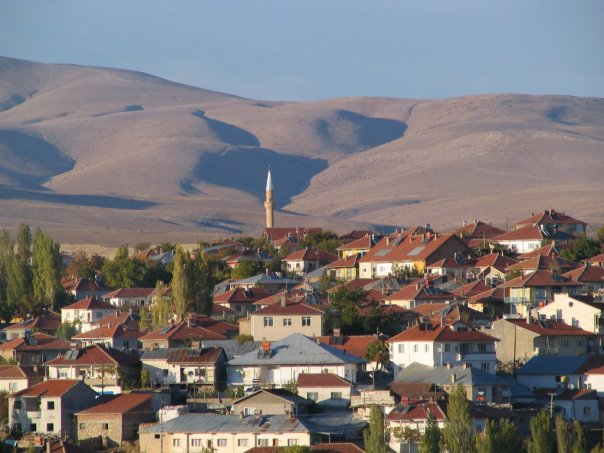 Tırkazlardan genel görünüm